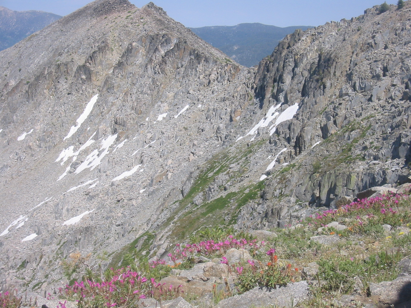 Wildflowers on Ralston's shoulder, looking toward Talking Mountain, near Lake Tahoe, Sierra Nevada, USA.